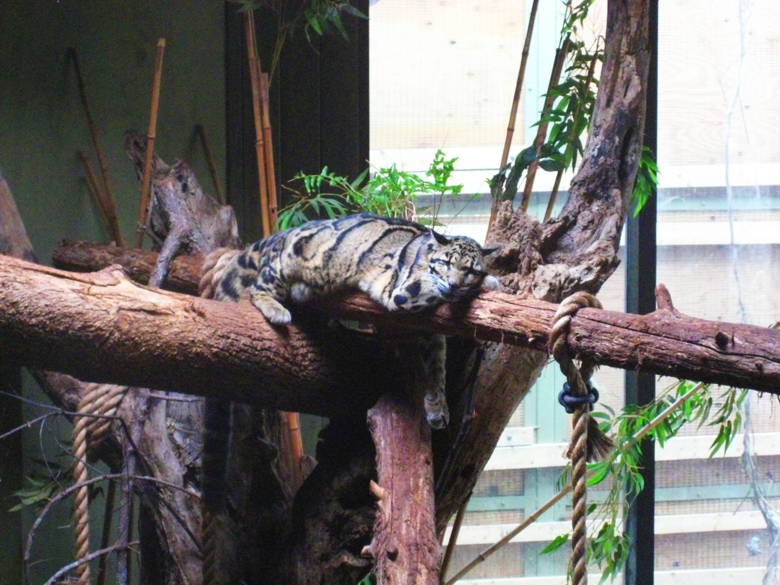 Indomalaya Clouded Leopard (Neofelis nebulosa), Toronto Zoo.